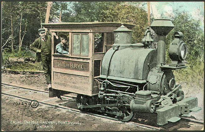 A narrow gauge railway, just over a mile long, carried passengers over the portage route in Huntsville Ontario.